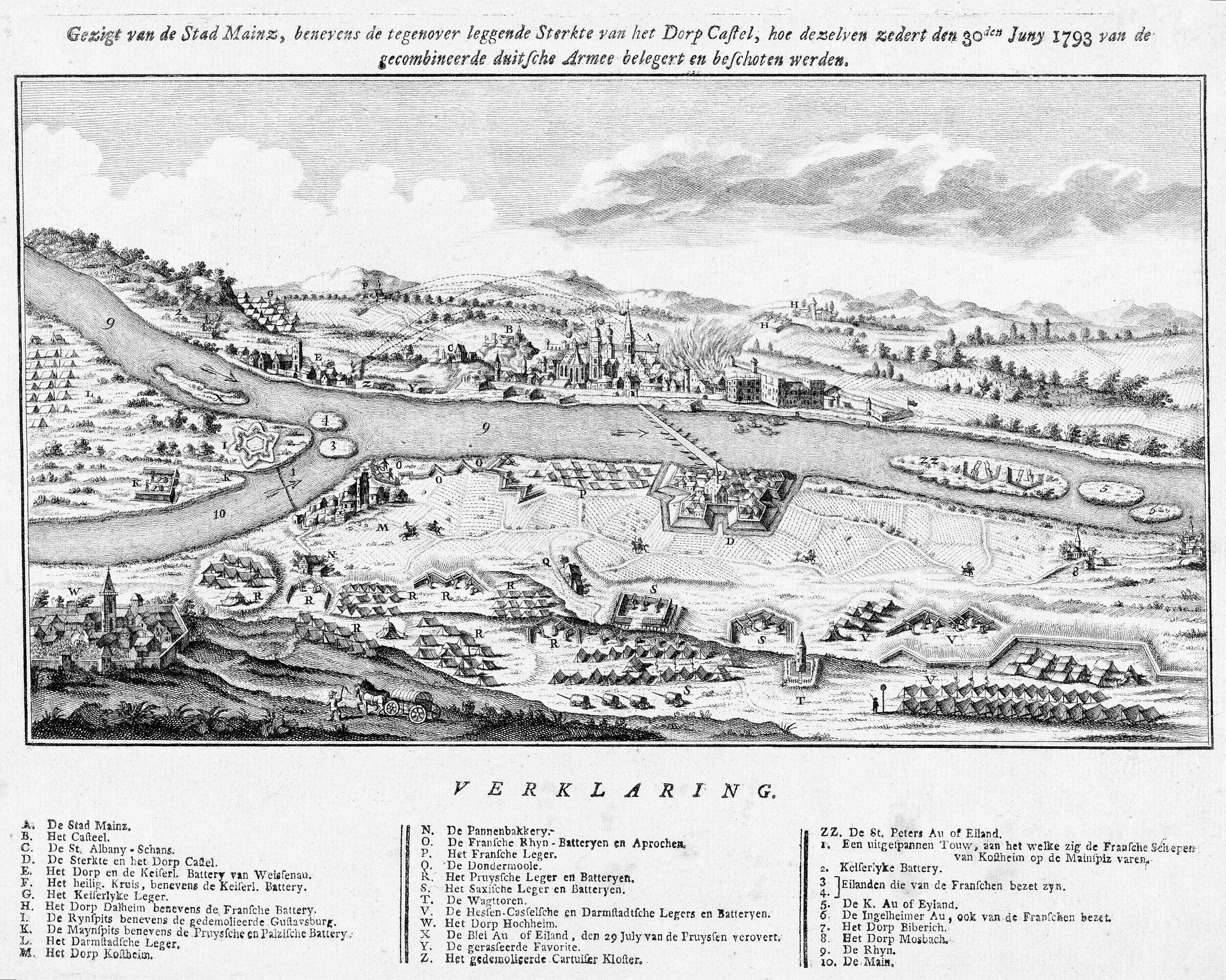 Siege and bombardment of Mainz by the united German army (coalition troops of Prussia and Austria) on 30 June 1793